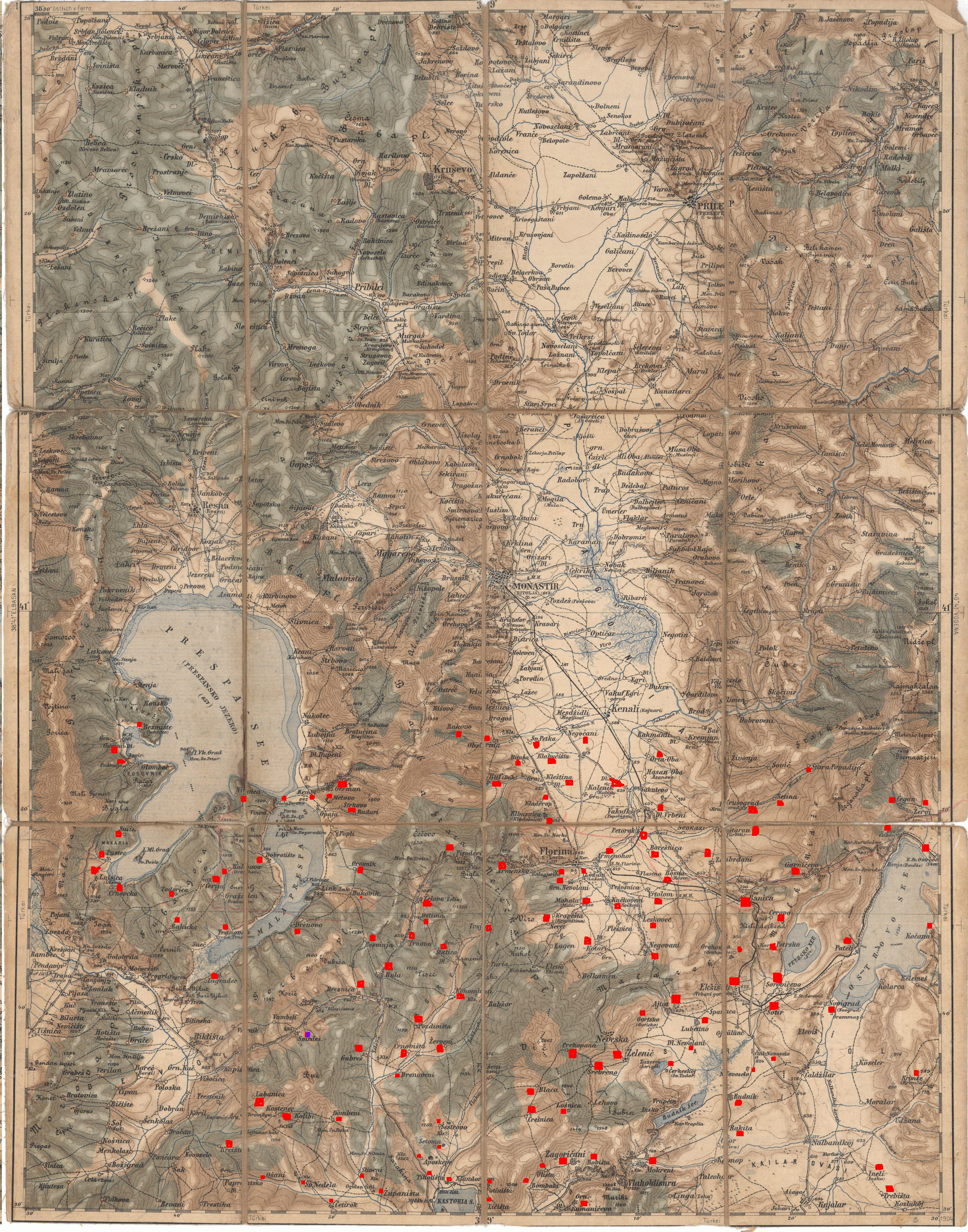 Pre-World War I "action map" of Monastir (Present day Bitola, Macedonia) and its environs. This map series is useful to scholars because it reflects the original pre-war toponymns in precise detail.